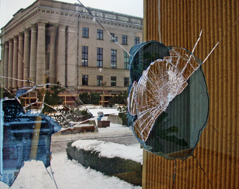 Broken window of the Seimas (Lithuanian Parliament) after the protest demonstration 16 January 2009